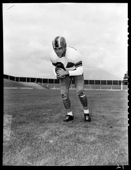 B.C. Lions football club, portraits, J. Garrett, Halfback, # 34 VPL Accession Number: 84791T Date: August 21, 1955 Photographer / Studio: Jones, Art Content: Photo series 84791 to 84791AI Topic: Football players Portrait Stadiums Location: British Columbia - Vancouver - Hastings-Sunrise - Hastings Community Park Copyright Restrictions: Public Domain